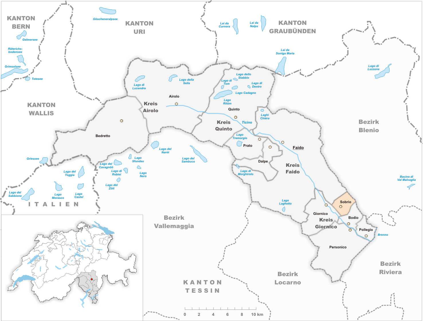 Municipality Sobrio